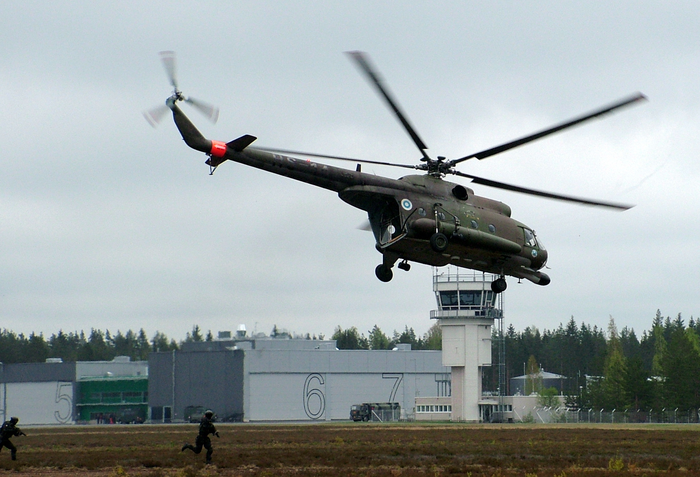 Finnish Army Mi-8 helicopter at Utti Airport in Valkeala, Finland.